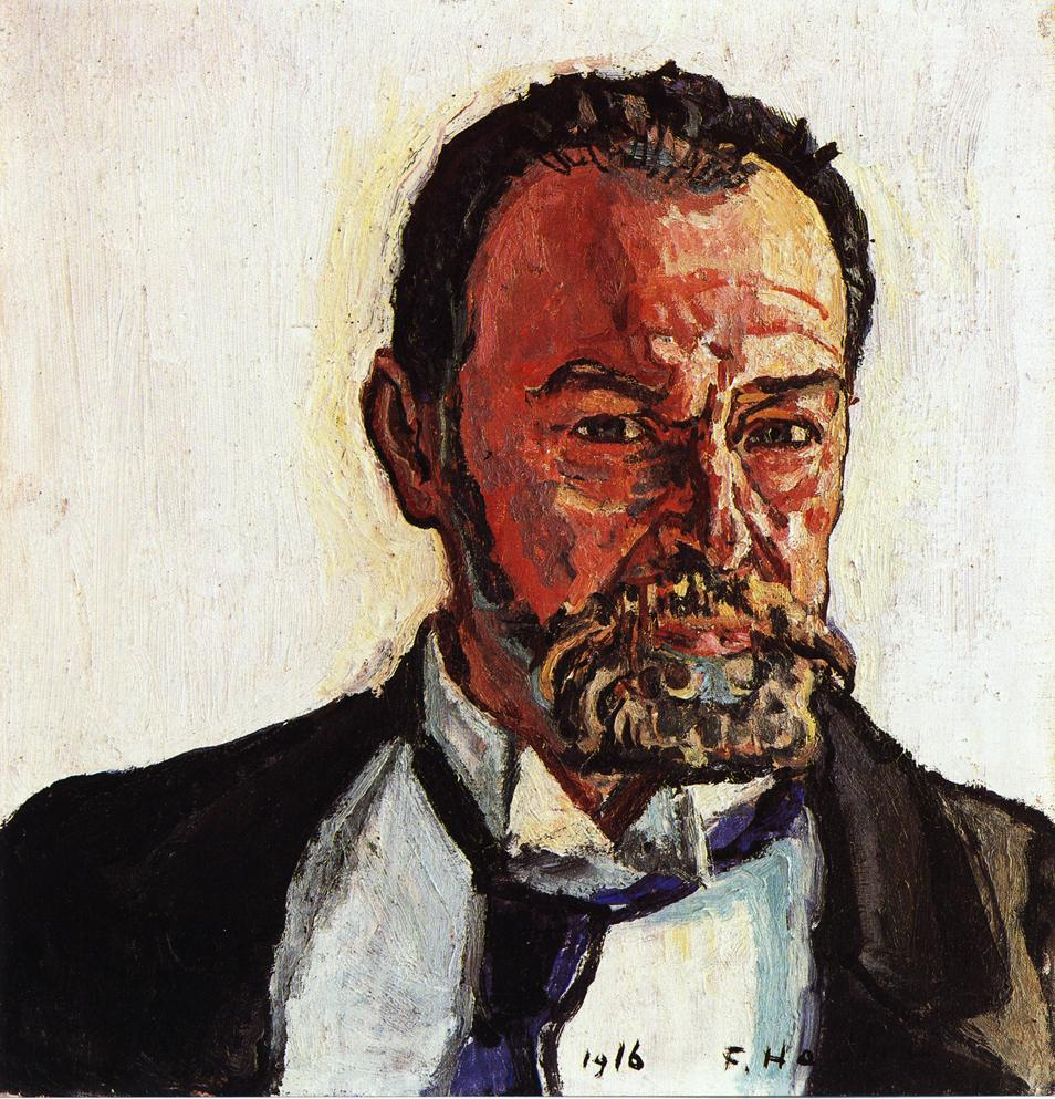 Self-portrait by the Swiss painter Ferdinand Hodler. Courtesy of The Atheneum.